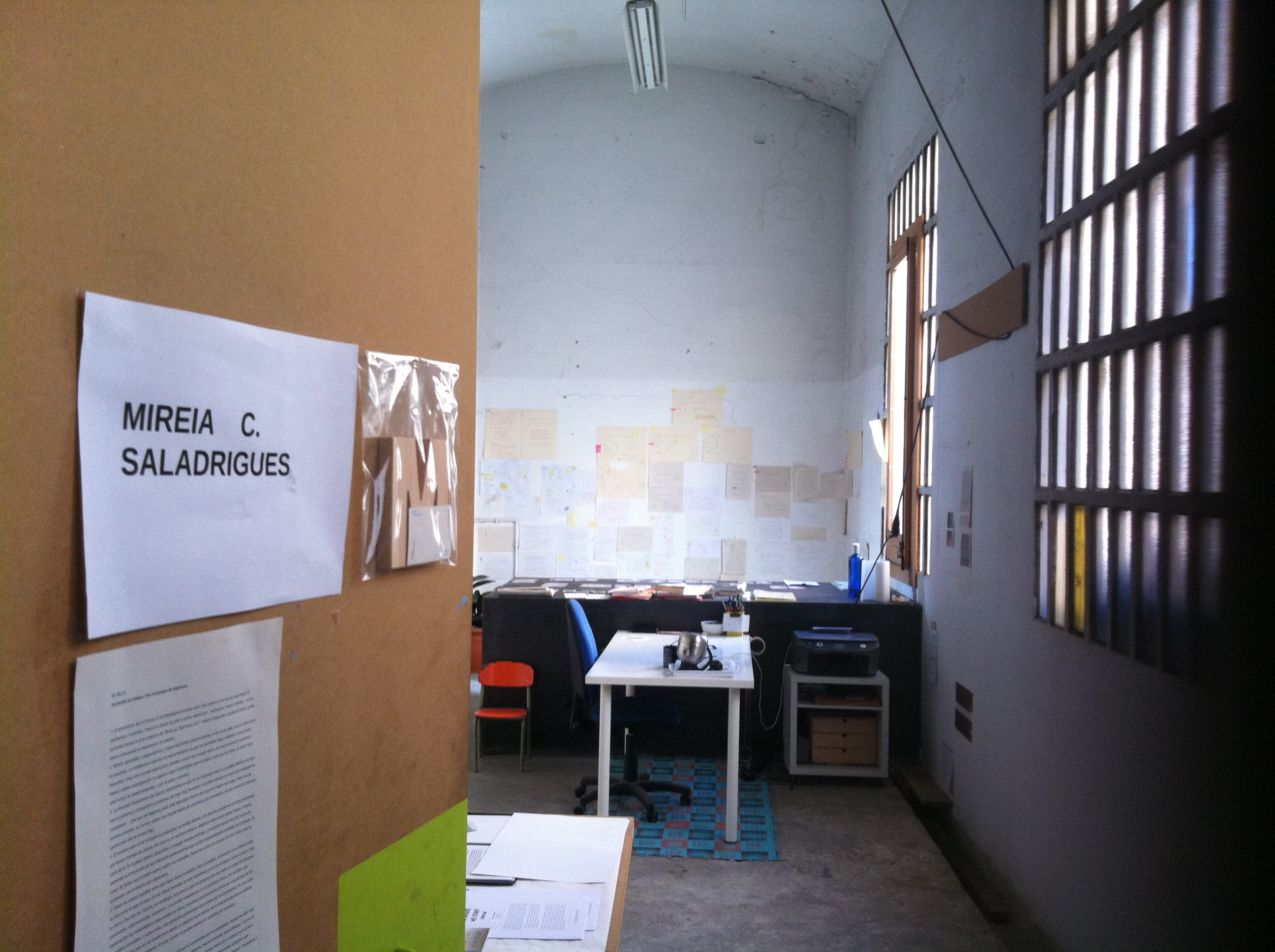 Hangar Barcelona- Tallers interiors